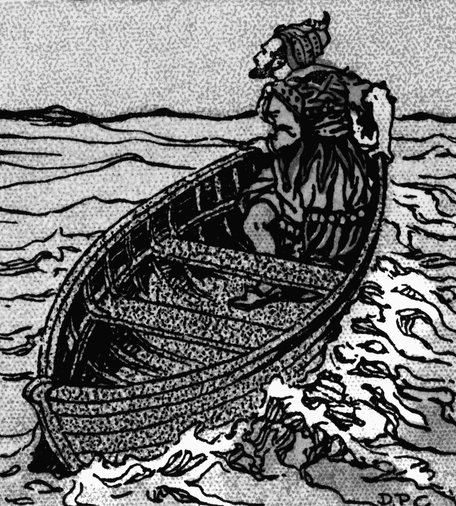 A scene from the story, "The Enchanted Island" by Olive Beaupre Miller, in The Treasure Chest of My Bookhouse (Chicago: The Bookhouse for Children, 1920)